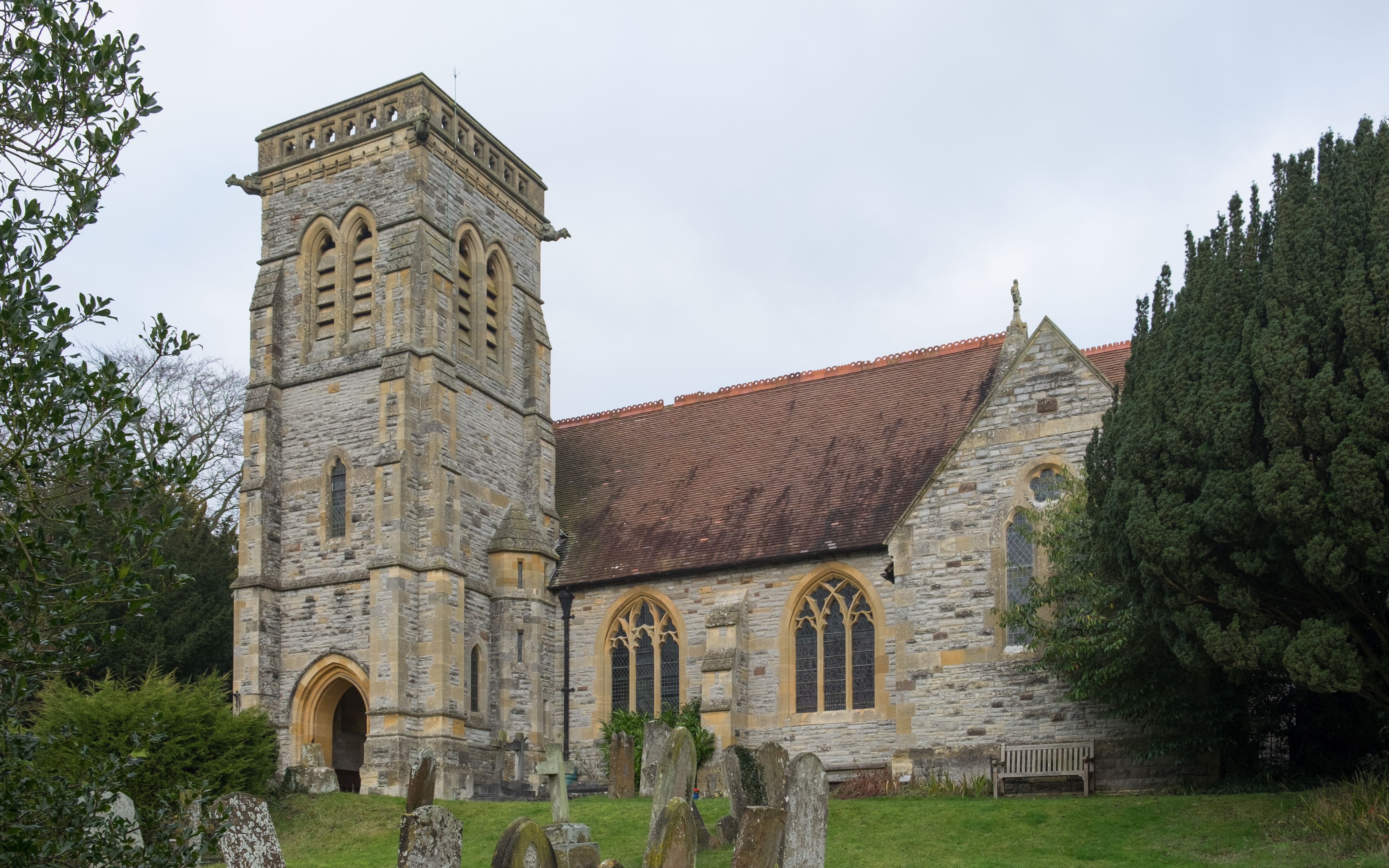 St Peter's Church, Binton, Warwickshire. This is a Grade II Listed Building in England.